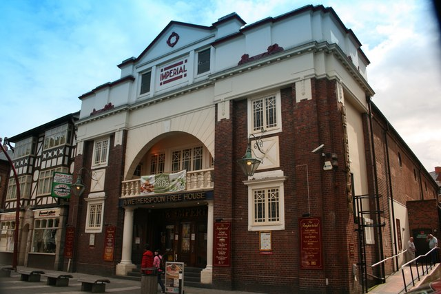 Converted Cinema This was once the Imperial cinema, what I remember as one of Walsall's three town centre cinemas, It has now been converted to a Wetherspoon's pub and is a popular town centre venue.